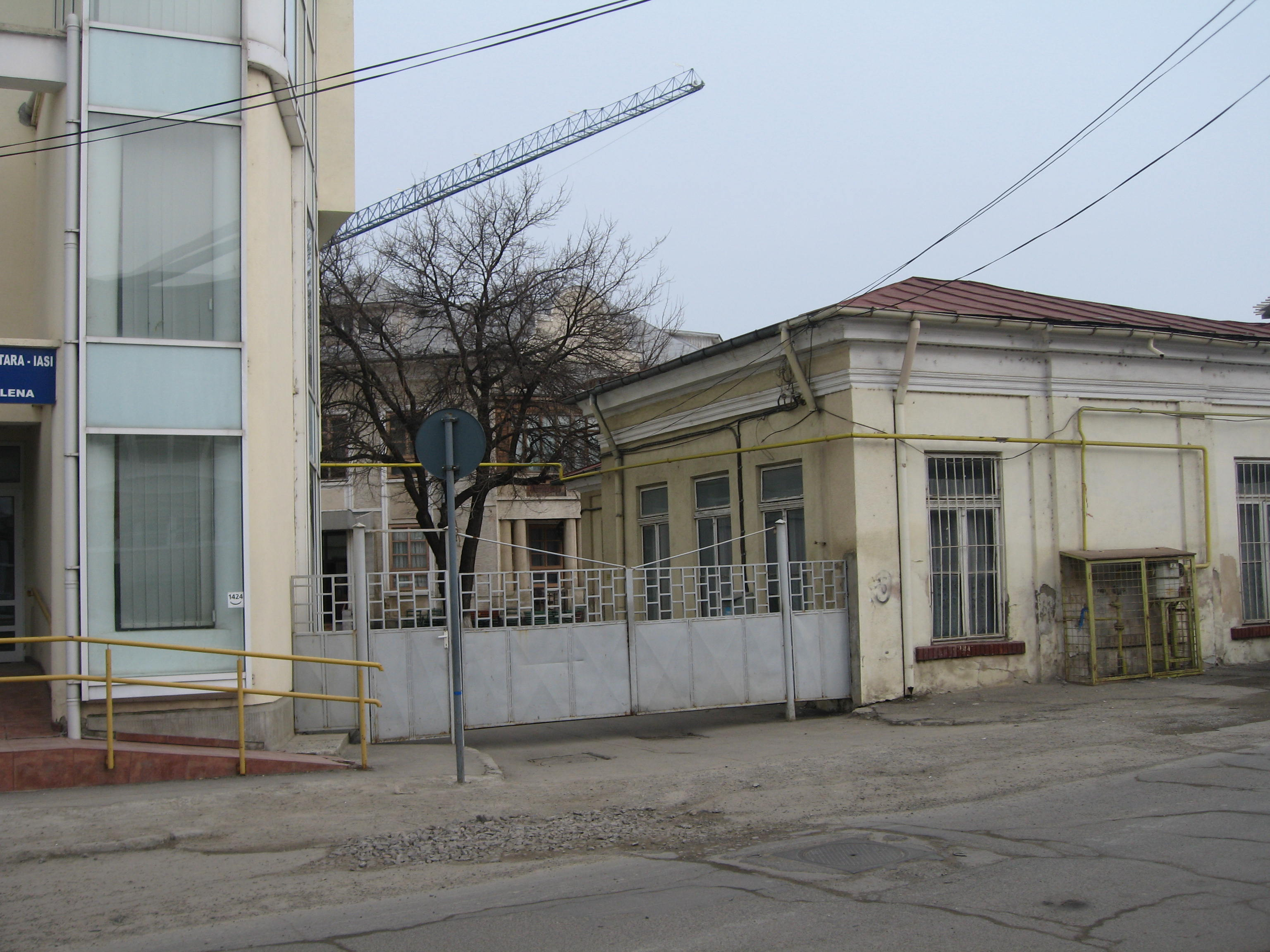 Sinagoga Schor din Iaşi